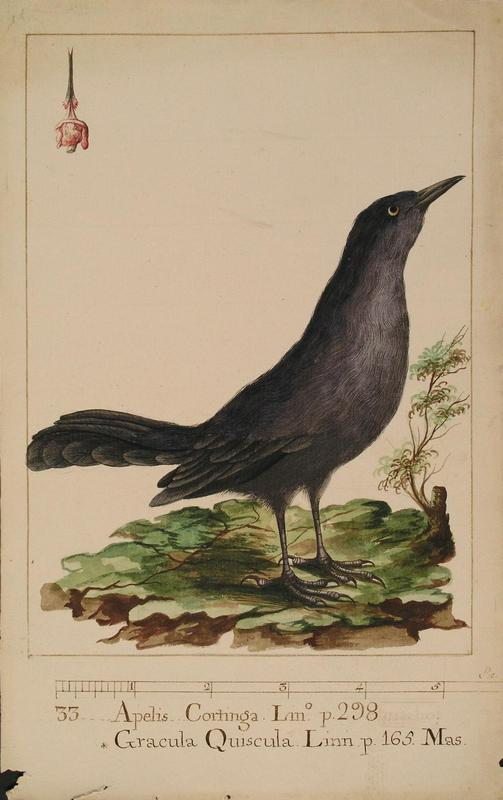 From the previously unpublished work of José Mariano Mociño of the Real Expedición Botánica a Nueva España (1787-1803). ACN0110B/002/4728: Apelis Continga. Linn. *Granula Quiscula. Linn. (Actual Classification: Quiscalus palustris, Sex: Adult Male.)